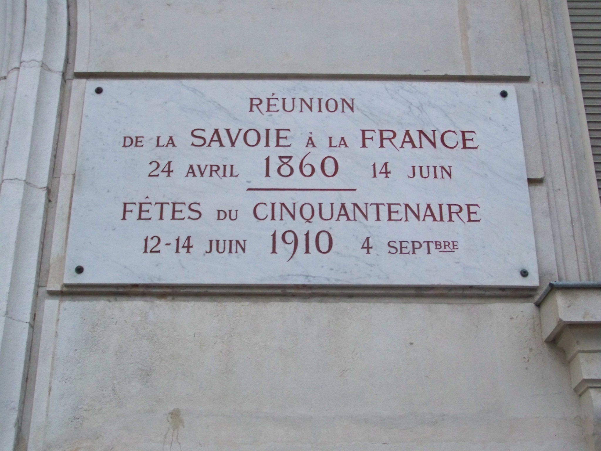 Commemorative plaque in memory of the annexation of Savoy by France in 1860, and its 50th anniversary in 1910, here on the Chambéry city hall facade, former capital of the Duchy.